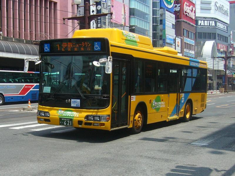 登録番号：鹿児島200か・621 鹿児島市営バス(Kagoshima City Bus)所属